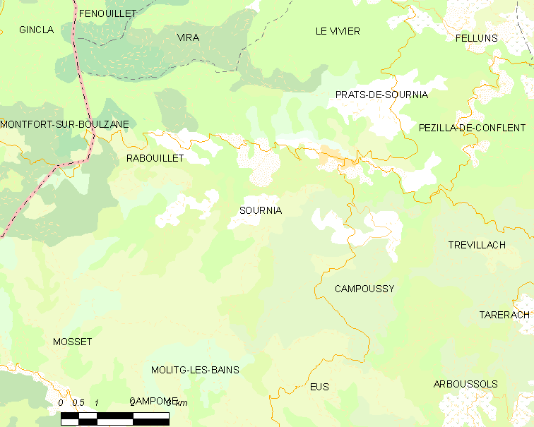 Map of French municipality